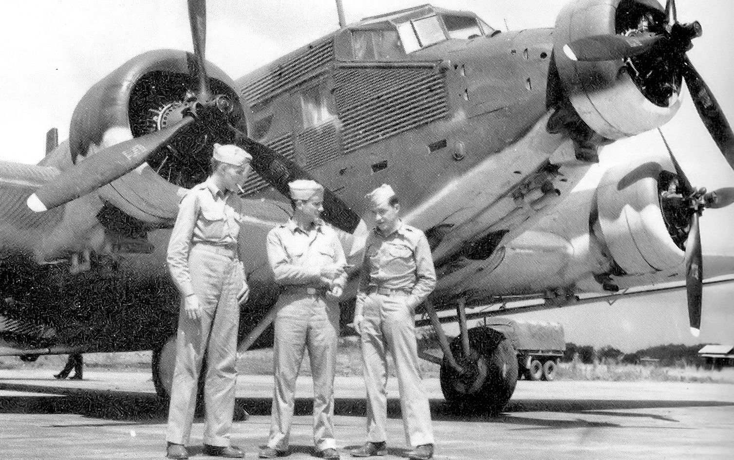 A former German Junkers Ju 52/3m at Howard Field, Panama Canal Zone, in late 1942, in service with the USAAF 20th Transportation Squadron, Sixth Air Force. The aircraft was designated as a C-79 and given the serial 42-52883 while in USAAF service. This Ju 52/3m ge (c/n J5283) had originally been D-AENF. On 1 April 1937, it was transferred to Lufthansa Südamerika for Andes service and named "Aconcagua". It was again transferred to the Brazilian airline Sindicato Condor as PP-CBA on 11 September 1939 and then to Lufthansa Sucursal Peru as OA-HHD on 29 November 1940. Syndicato Condor then leased it to Sociedad Ecuatoriana de Transportes Aereos (SEDTA) on 25 April 1941, where it was registered as HC-SAD. It was confiscated by Peruvian government on 5 September 1941 and acquired by the USAAF as war prize on 13 May 1942. The aircraft was refitted with Pratt & Whitney R-1690 engines with modified cowlings and 3-bladed propellers. The air-brakes were replaced with hydraulic brakes, a tail wheel was installed instead of the original skid. All instruments and the radio were replaced with U.S. equipment. In December 1943, it was turned over to the U.S. Public Roads Administration in Costa Rica in as TI-60. Further records show that the aircraft was condemned on 20 December 1943 or 7 December 1944.